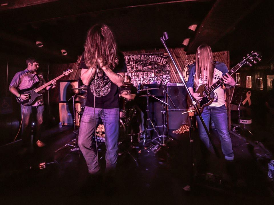 Performing at Doomed & Stoned Festival in Indianapolis, Indiana in 2016.